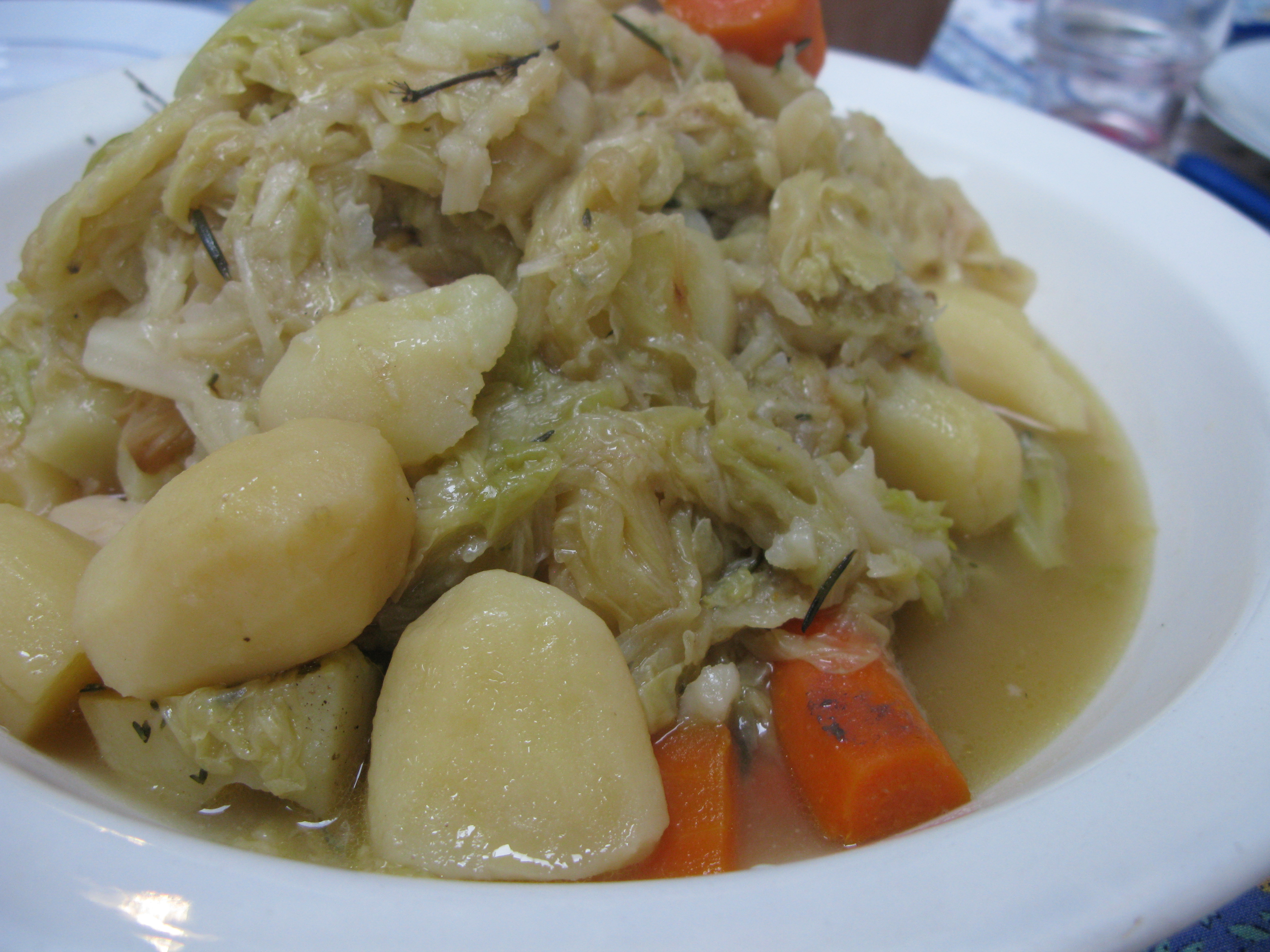 Potée is a French culinary term which, in general, refers to all preparations cooked in an earthenware pot. More specifically, it refers to a soup or stew made of pork and vegetables, most frequently, cabbage and potatoes.